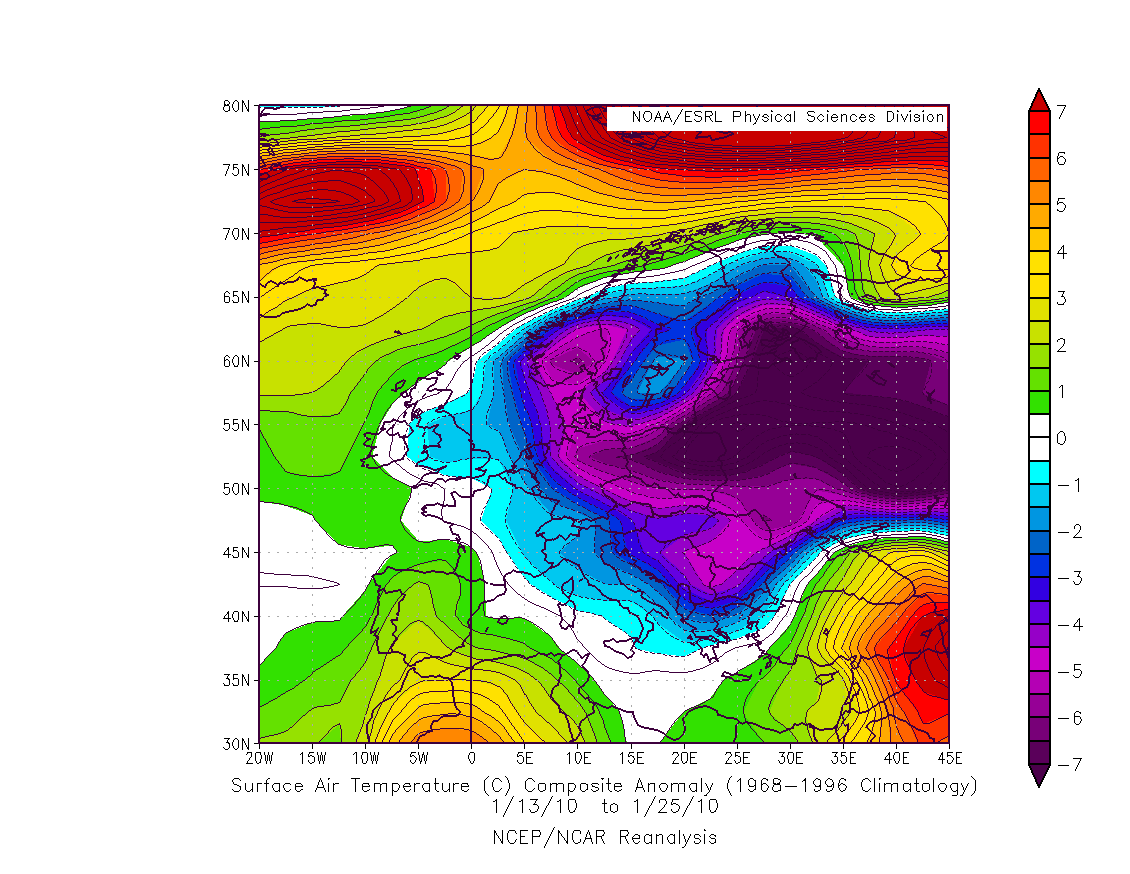 Surface temperatures anomalies for Europe, from January, 13 2010 to January, 25 2010, showing the second cold wave of the 2010 european winter.